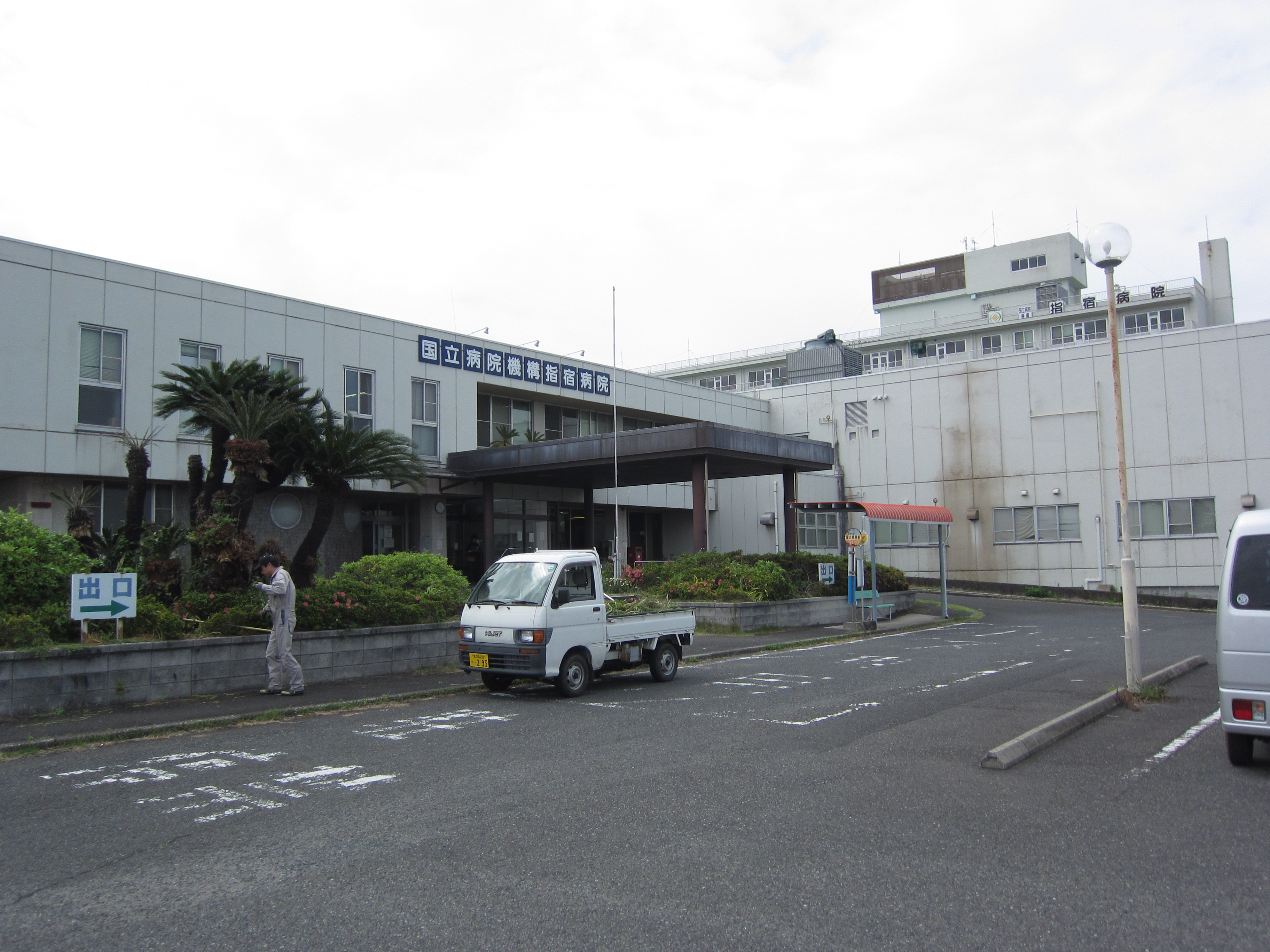 Ibusuki National Hospital